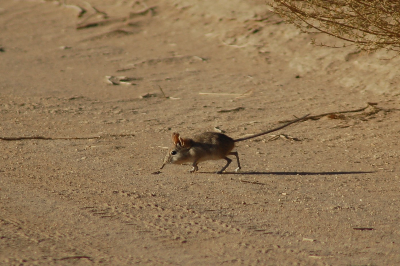 Kgalagadi National Park, South Africa